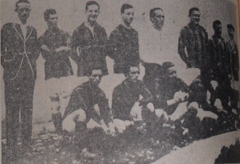 Rosario 1919